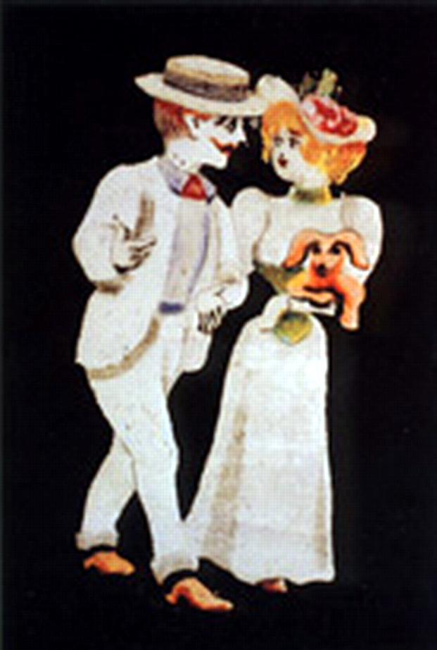 Characters of Autour d'une cabine by Émile Reynaud